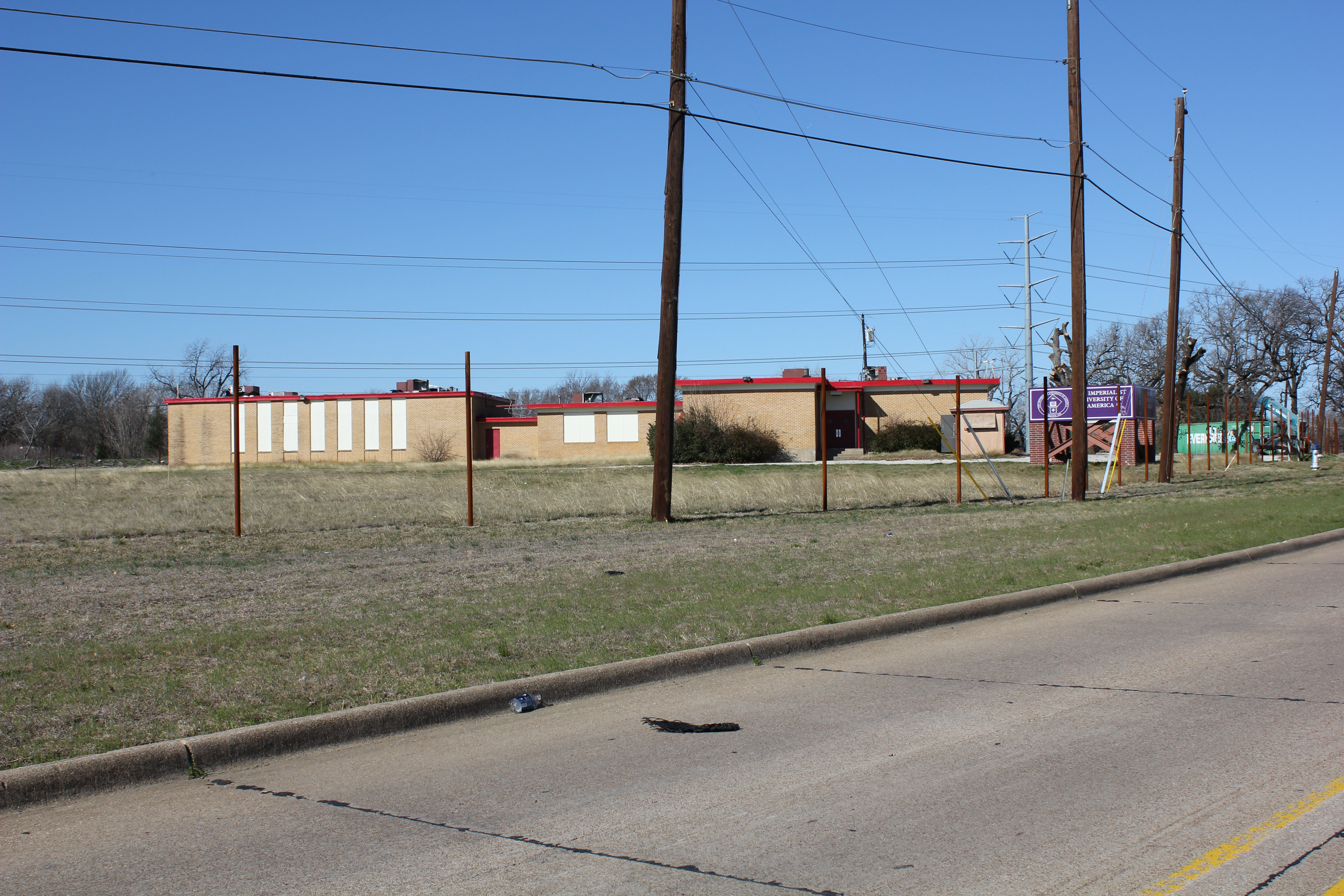 Former Wilmer-Hutchins ISD admin building.